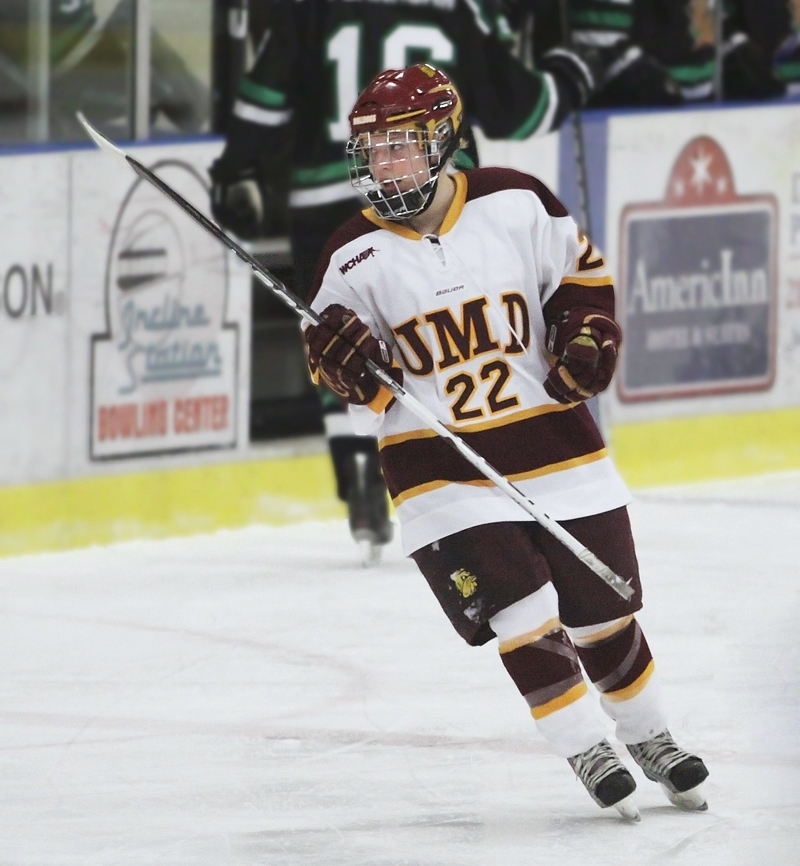 University of Minnesota-Duluth Bulldogs senior defenseman Sarah Murray during a game against the University of North Dakota